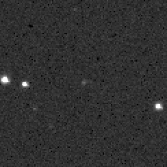 A CCD image of asteroid 4055 Magellan taken with a ground-based telescope.